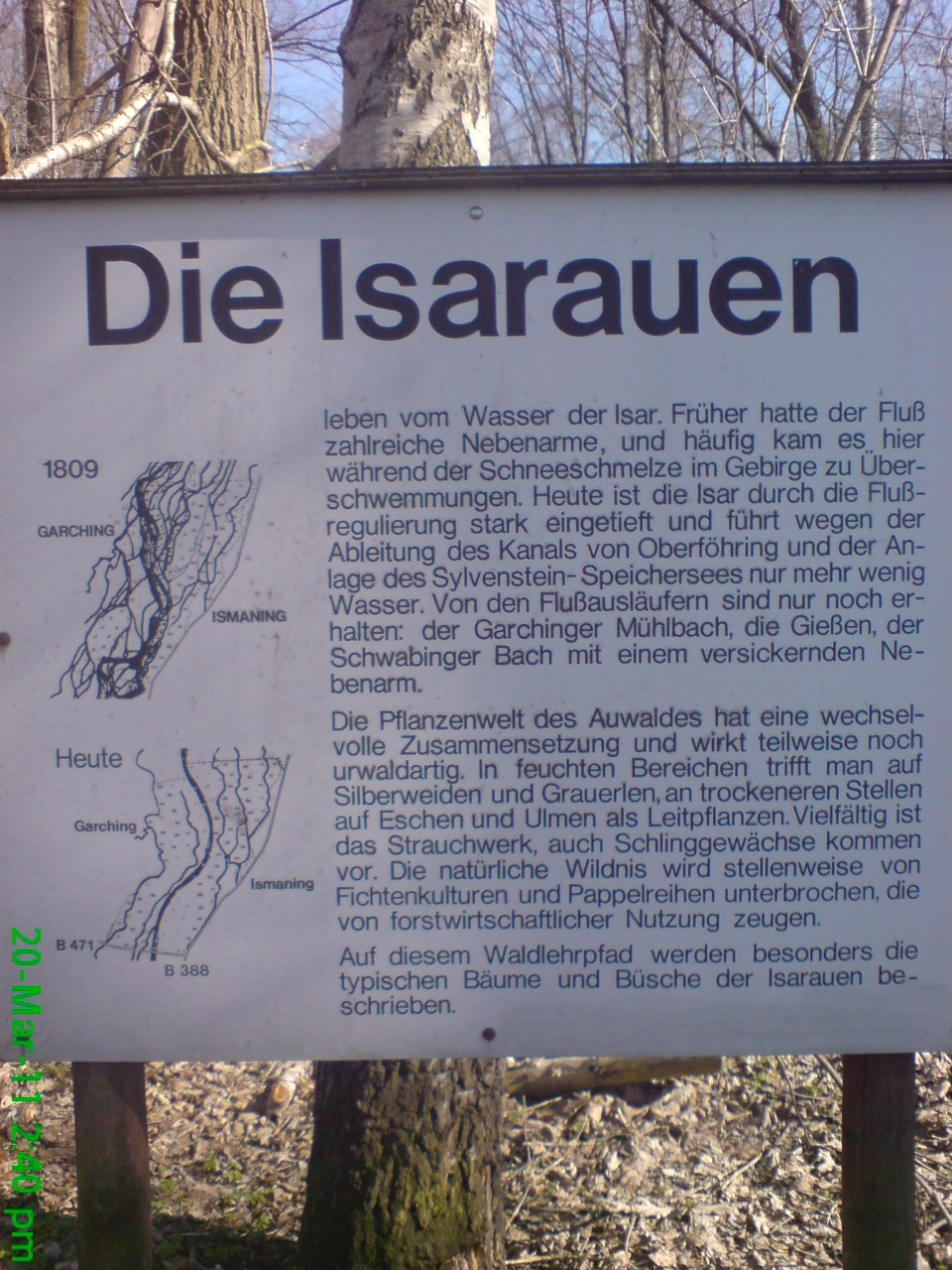 Isar in Garching bei München